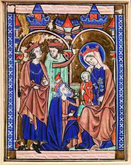 The Potocki Psalter from the Wilanów Collection, 13-th century